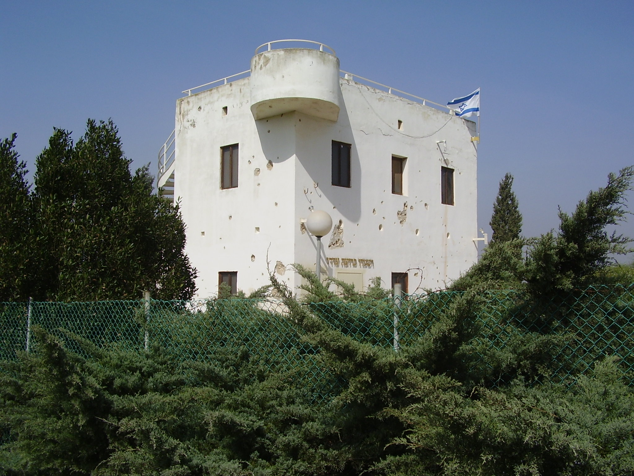 old security house of kibbutz sa\'ad